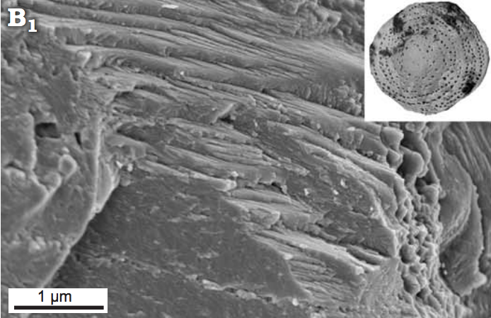 SEM photomicrograph of the recent foraminifera Patellina sp., showing cleavage plains in the apparently monocrystalline test.